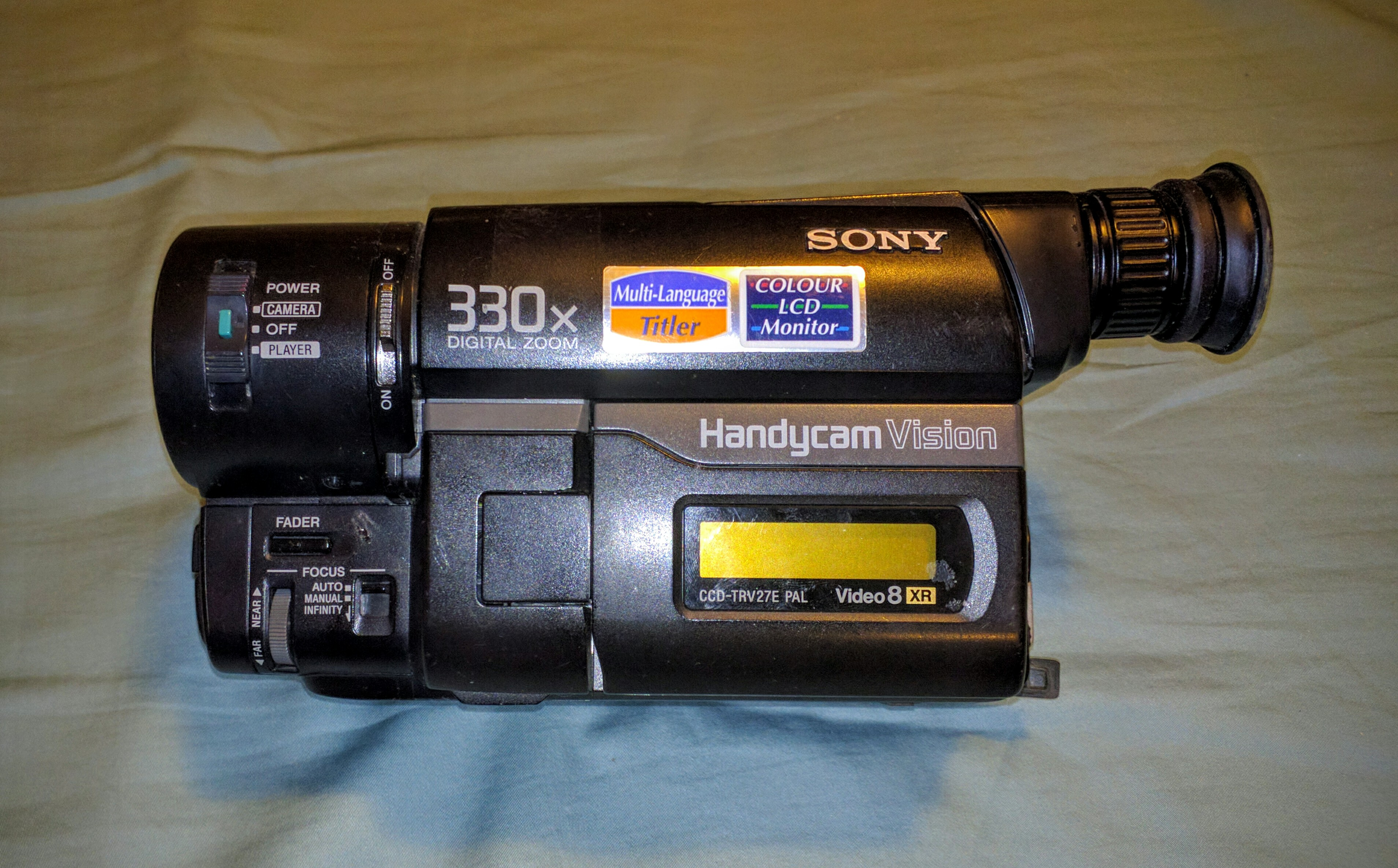 Sony Handycam CCD-TRV27E PAL video8